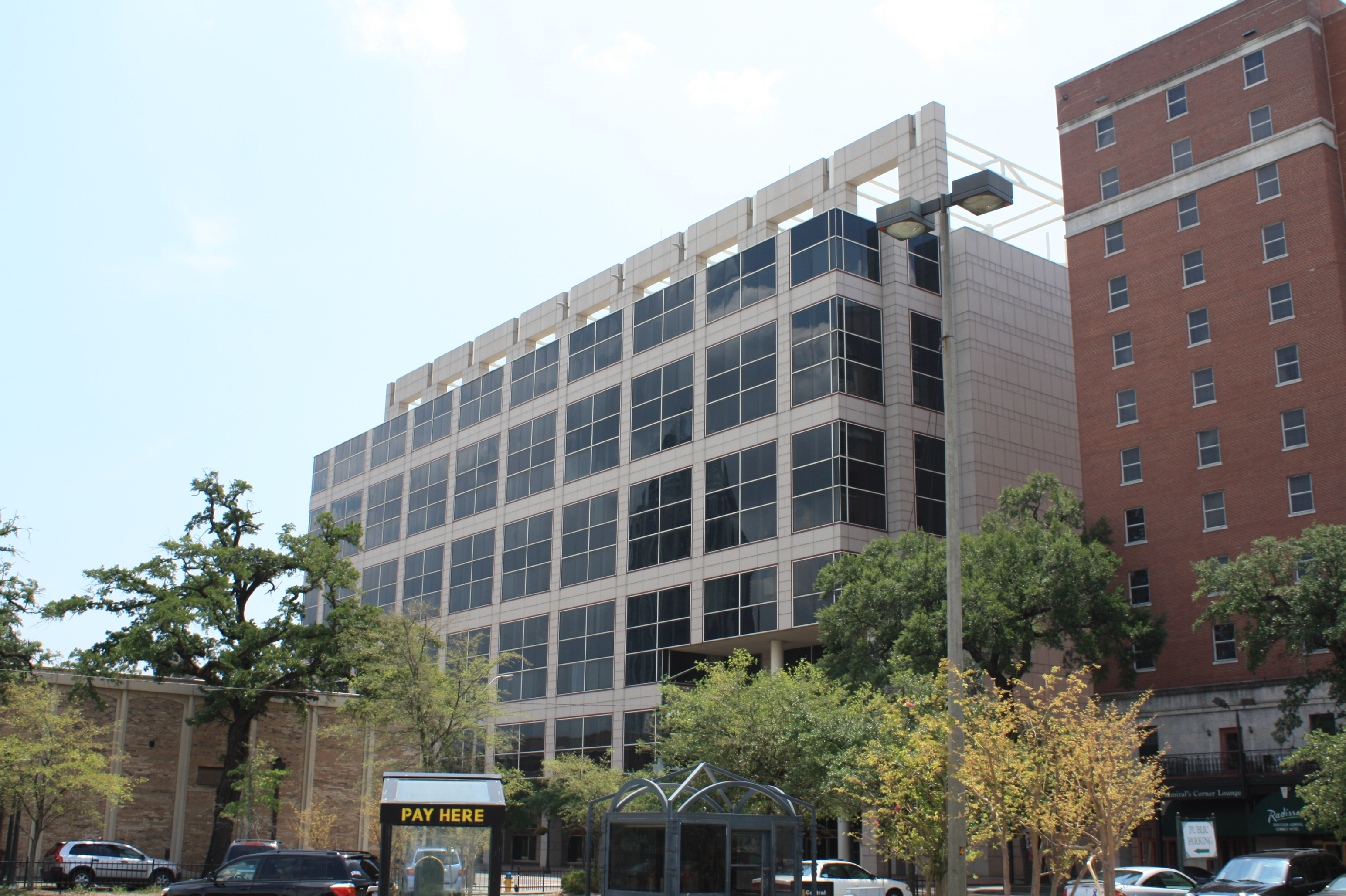 Mobile Government Plaza in Mobile, Alabama. Houses city and county government. View of Government Street facade from the northwest.